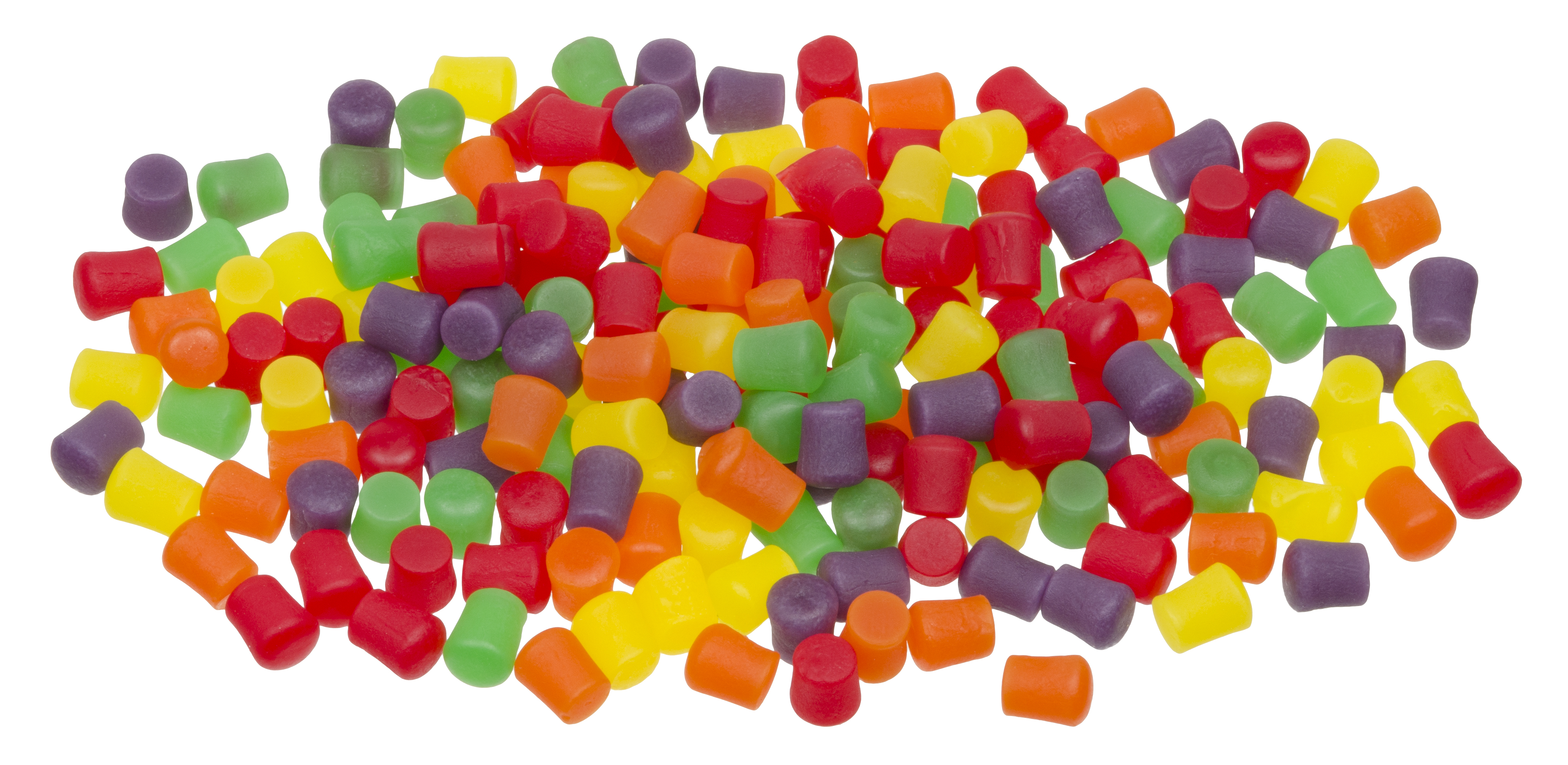 A pile of Jujubes, a fruit-flavored gummy candy made and sold in North America by the Ferrara Candy Company.